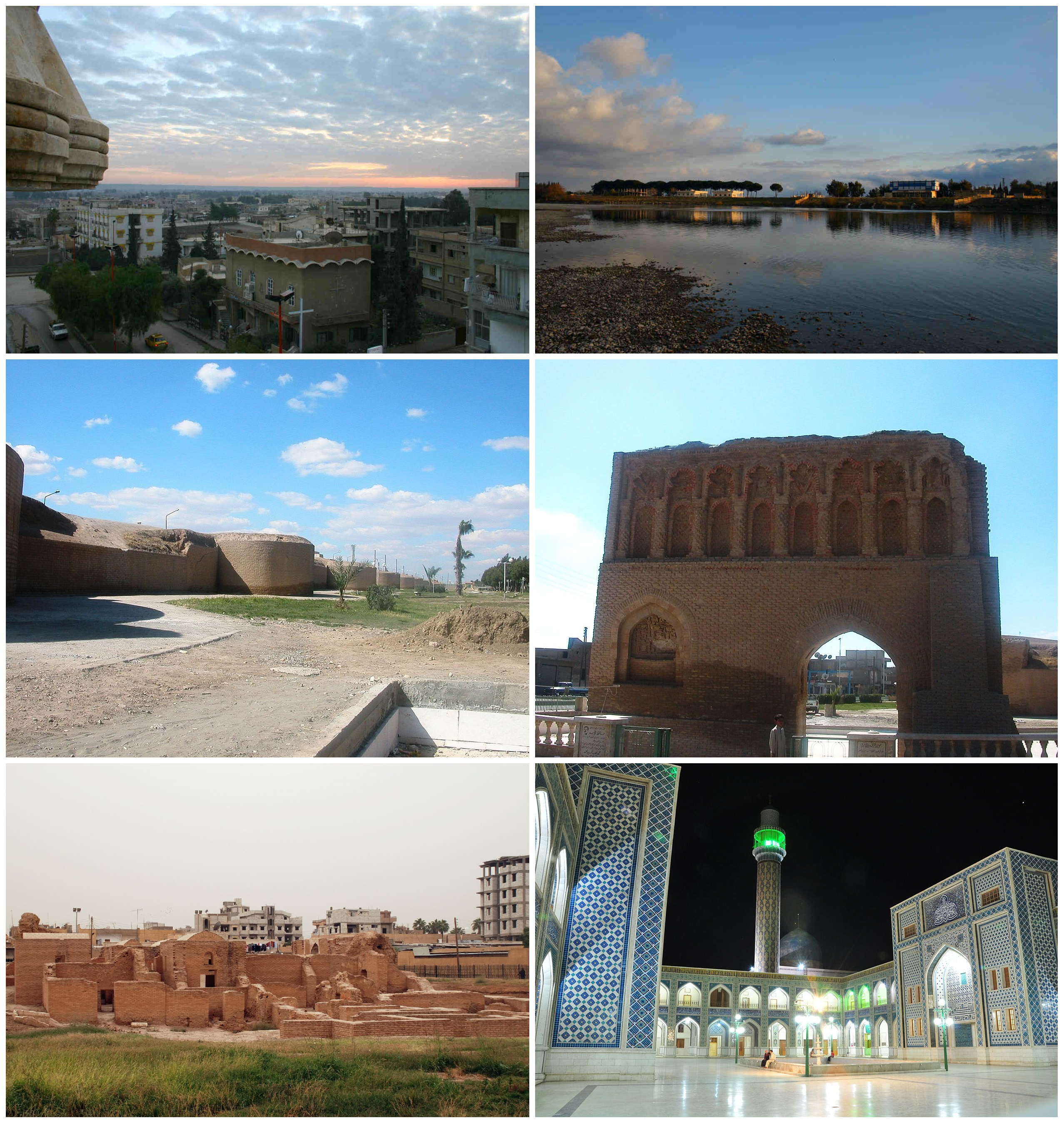 Ar-Raqqah collection of photos